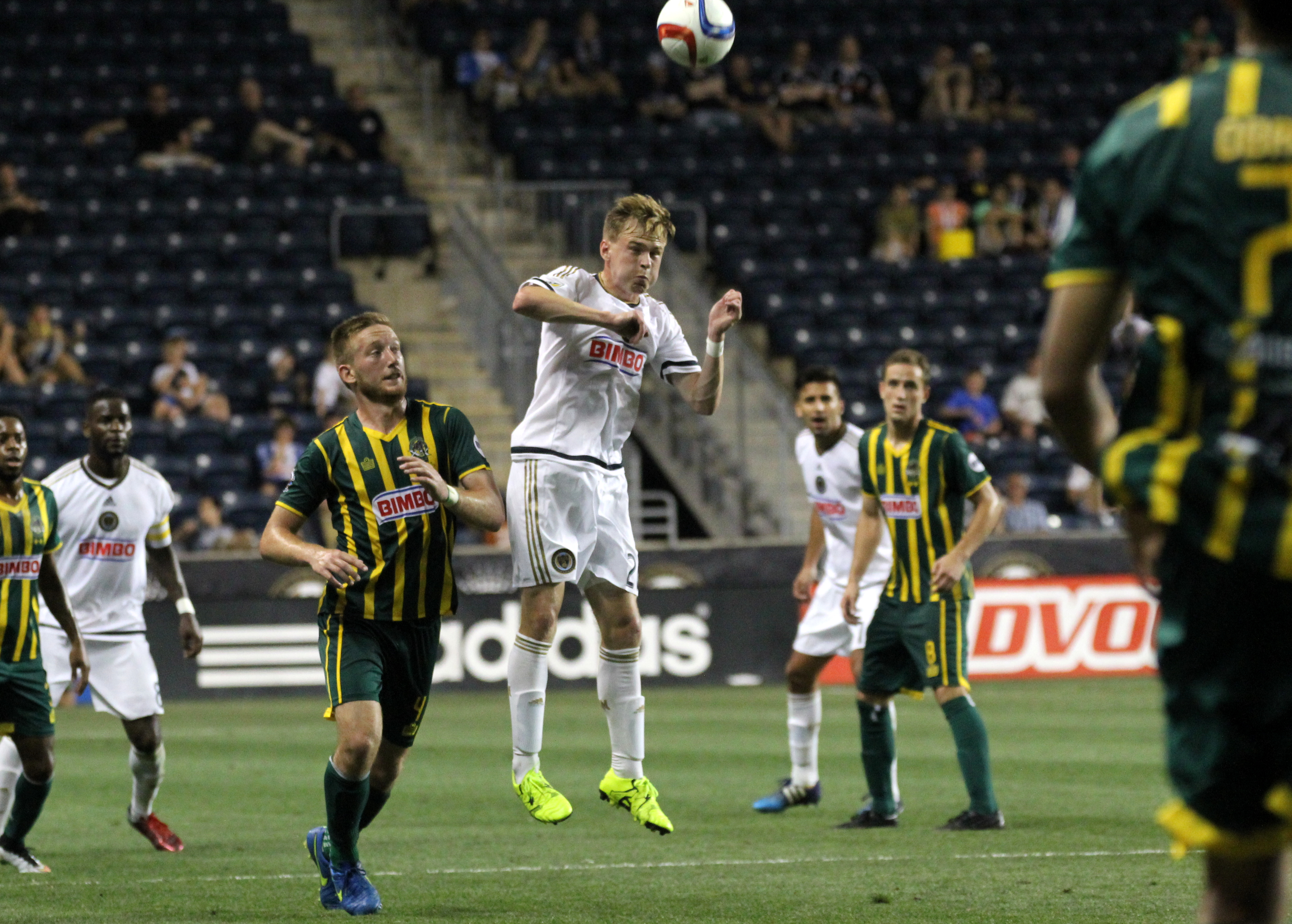 Jimmy McLaughlin of Philadelphia Union sends the ball back up the field with a header. To McLaughlin's right is Sean Totsch of Rochester Rhinos. Photo was taken during a 2015 U.S. Open Cup Fourth Round matchup.